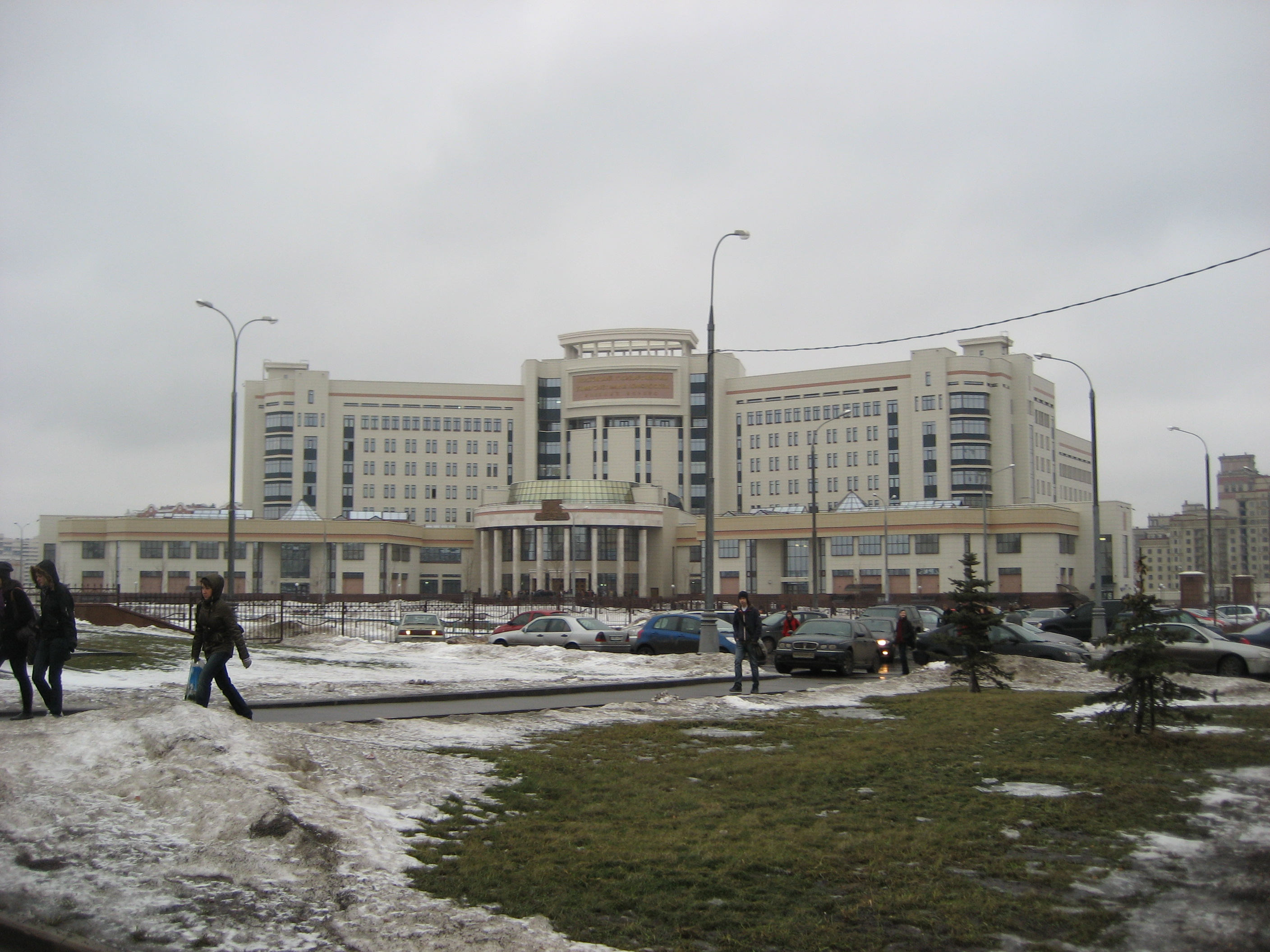 The 1st training Corps on new territory of MSU